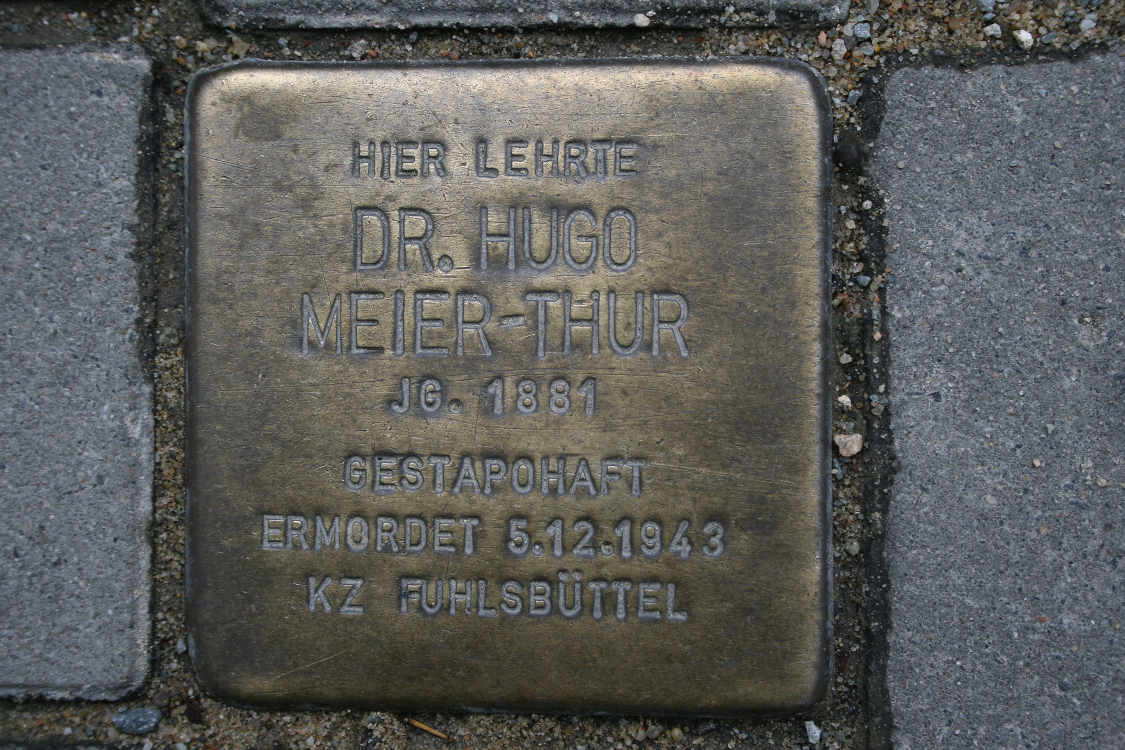 Stolperstein for Hugo Meier-Thur located in front of the stairway at the entrance of the Hochschule für bildende Künste Hamburg, Lerchenfeld